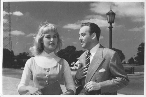 Screenshot of Yesterday Was Spring.